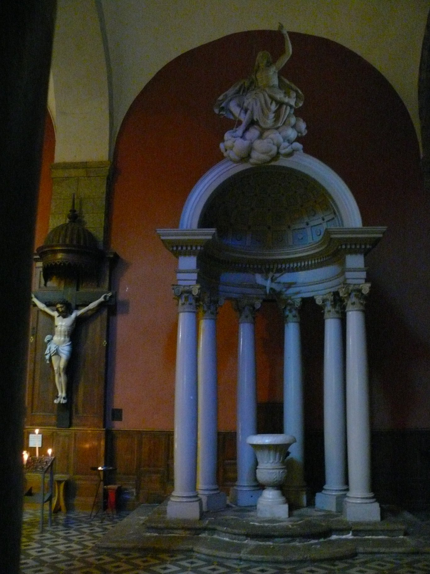 Saint-John-the-Baptist's church of Solliès-Pont (Var, Provence-Alpes-Côte-d'Azur, France).